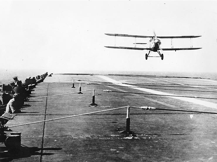 HMS Furious (British Aircraft Carrier, 1917-1948) Fairey III-F aircraft landing on board, circa the early 1930s. Note arresting gear wires, elevated rather high above the flight deck. U.S. Naval Historical Center Photograph.